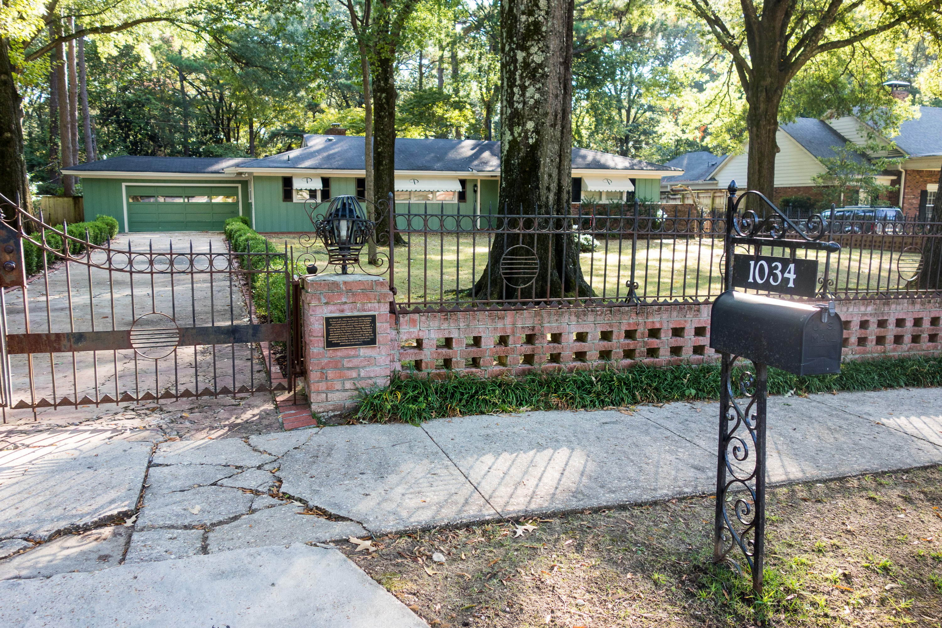 Elvis Presley House, 1034 Audubon Dr., Memphis. NRHP ID 05001217